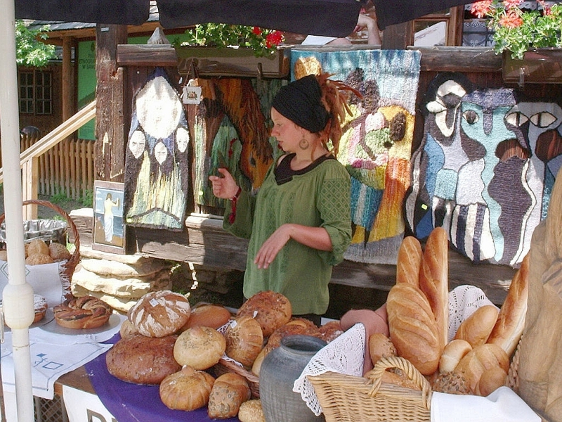 Sanok